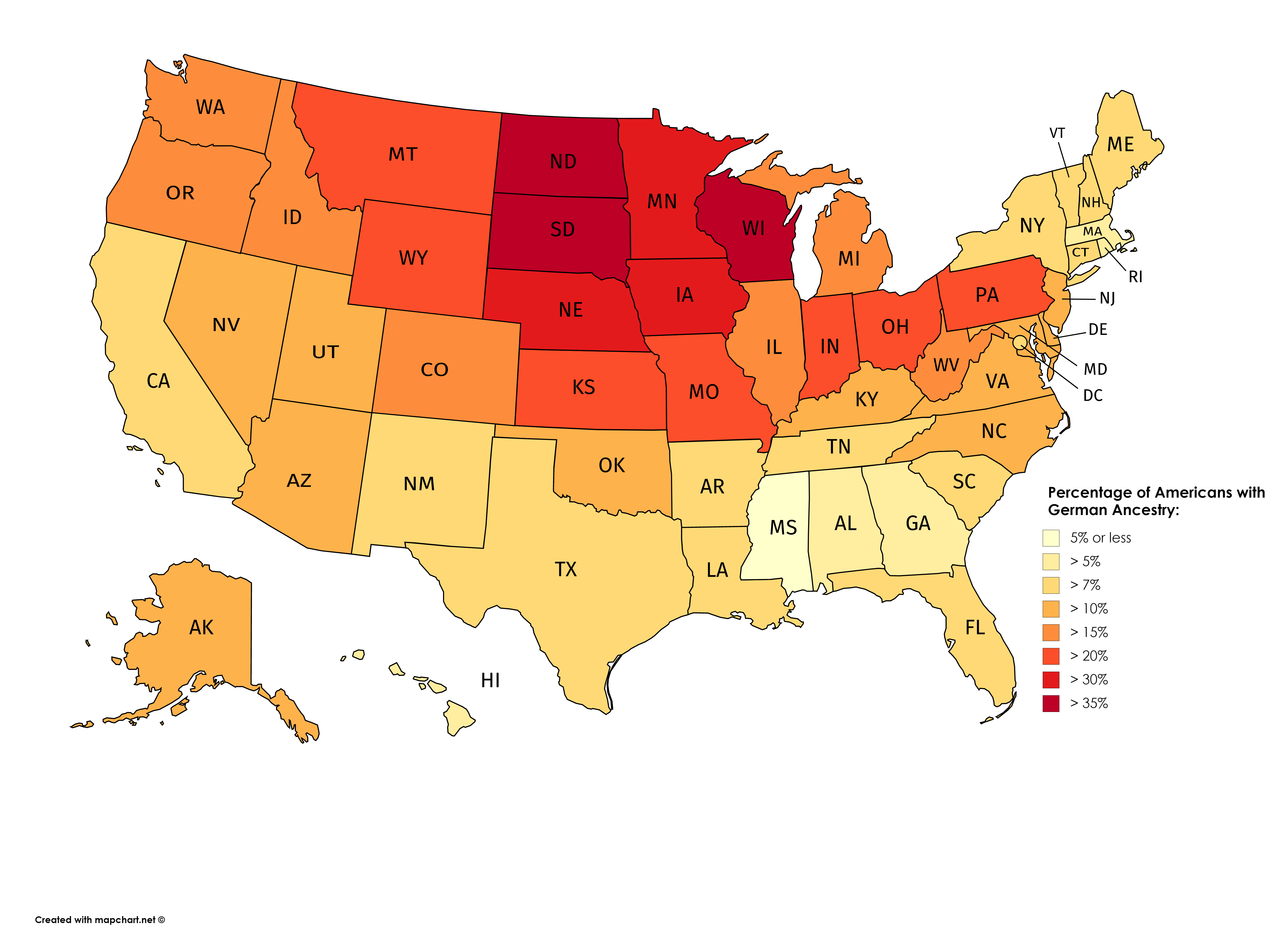 This is a map showing states by the percentage of Americans they have claiming German Ancestry in 2018 according to the ACS's 5-year Estimates.